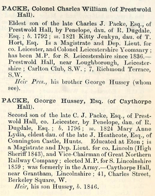 George Hussey Packe 1796–1874 listing in Edward Walford's (1823–1897), 1860 published The county families of the United Kingdom; or, Royal manual of the titled and untitled aristocracy of Great Britain and Ireland. p.489.